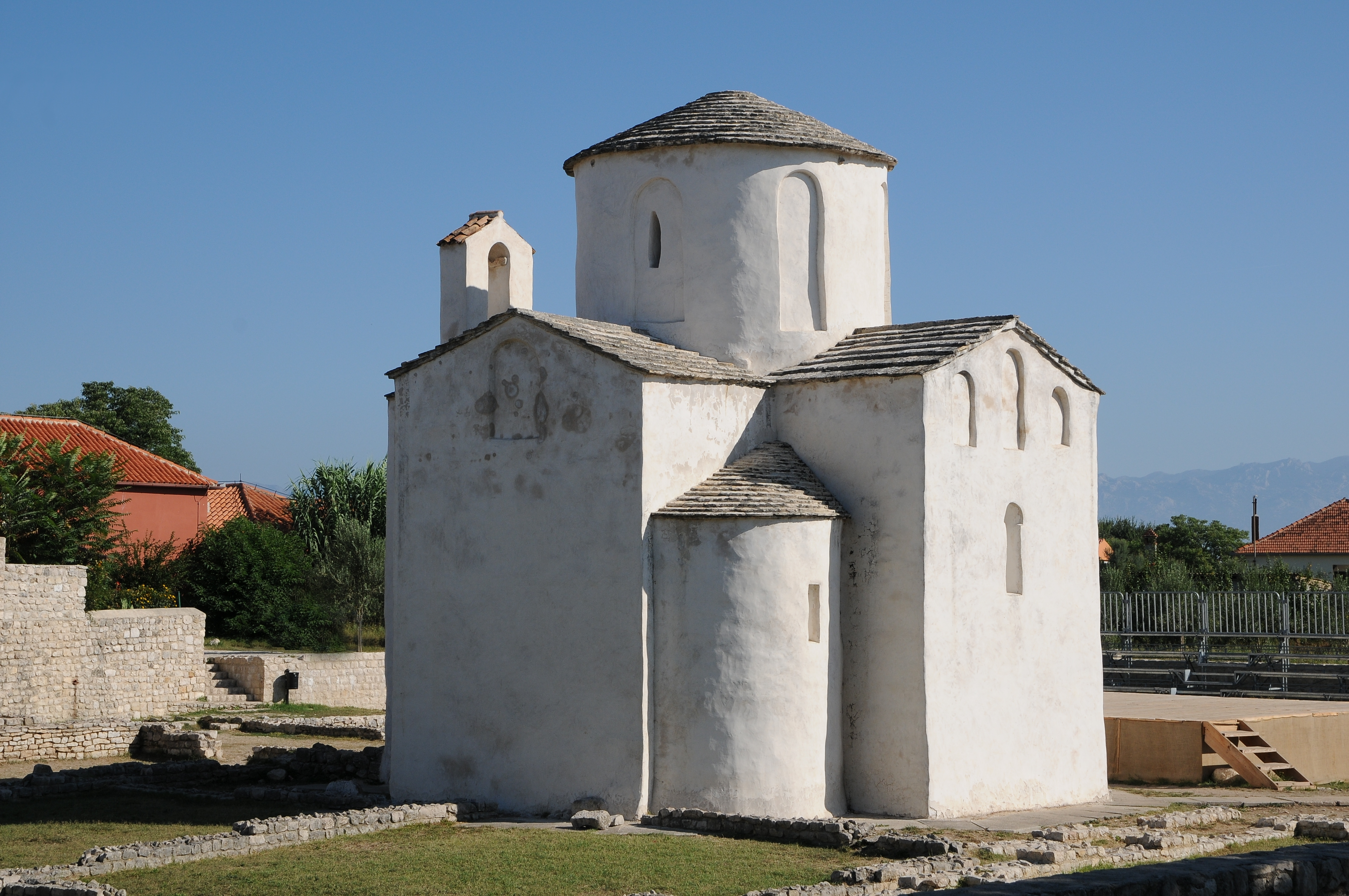 Nin, Croatia - Church of St. Cross